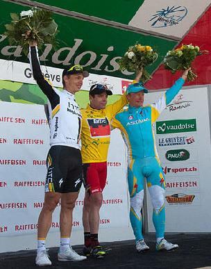 2011 Tour de Romandie, Final podium composed in the order of: 1st Cadel Evans (Yellow Jersey, BMC Racing), 2nd Tony Martin (Team HTC-Highroad) and 3rd Alexandre Vinokourov (Team Astana).